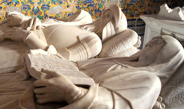 Aldonza de Ayala, IV Señora del Valdepusa junto con su esposo Per Afán de Ribera "El Viejo" y su primera esposa María Rodriguez Mariño